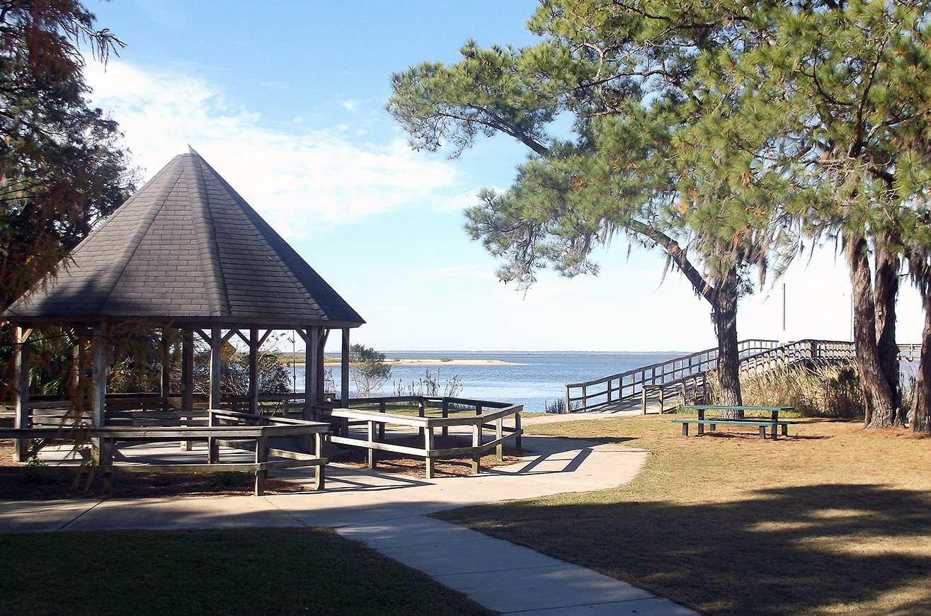 A portion of Bayfront Park in Daphne, Alabama USA overlooking Mobile Bay